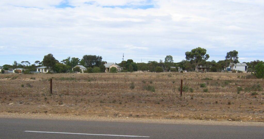 A brief view of Wynarka from the highway.